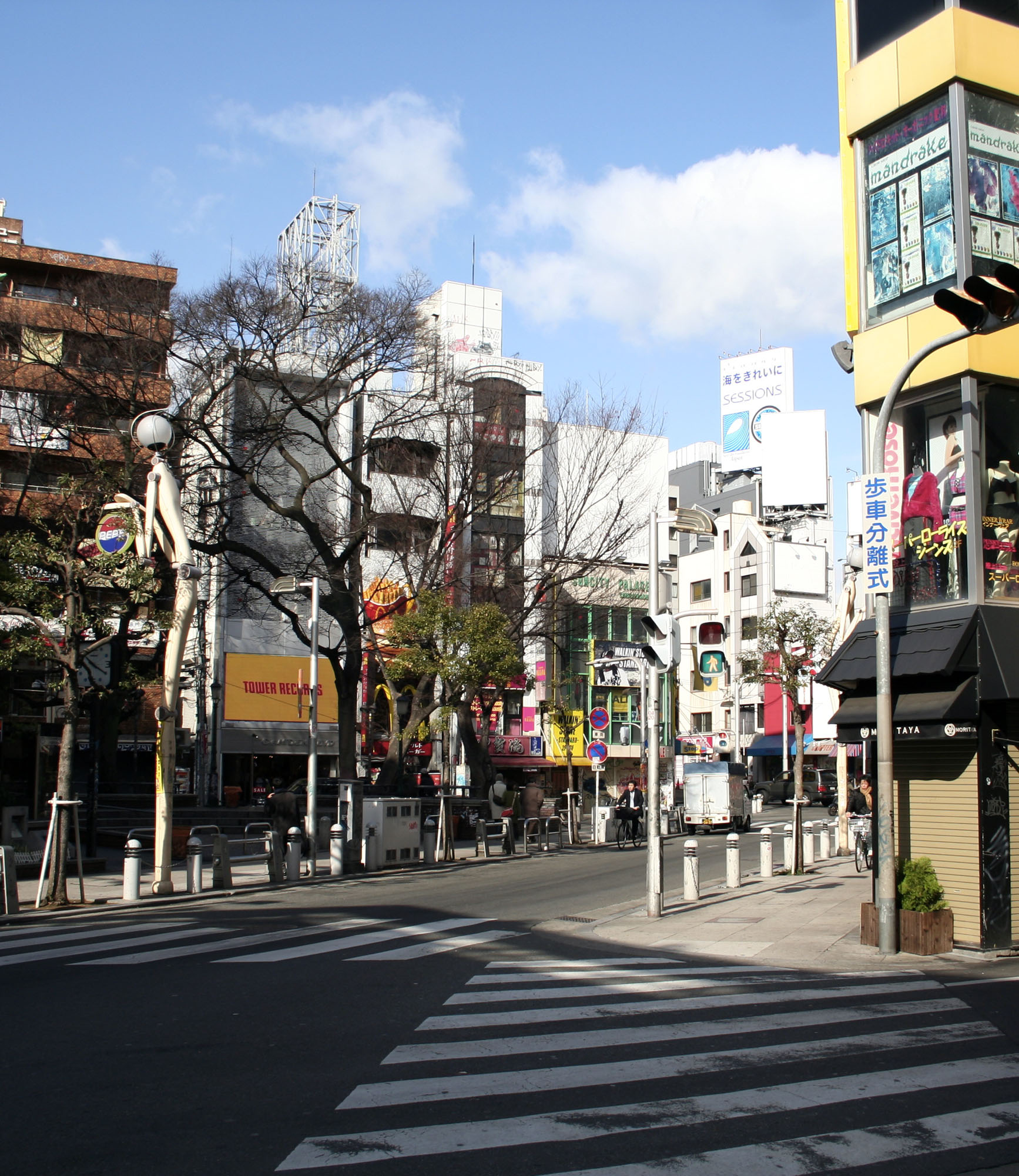 Taken in Amerikamura